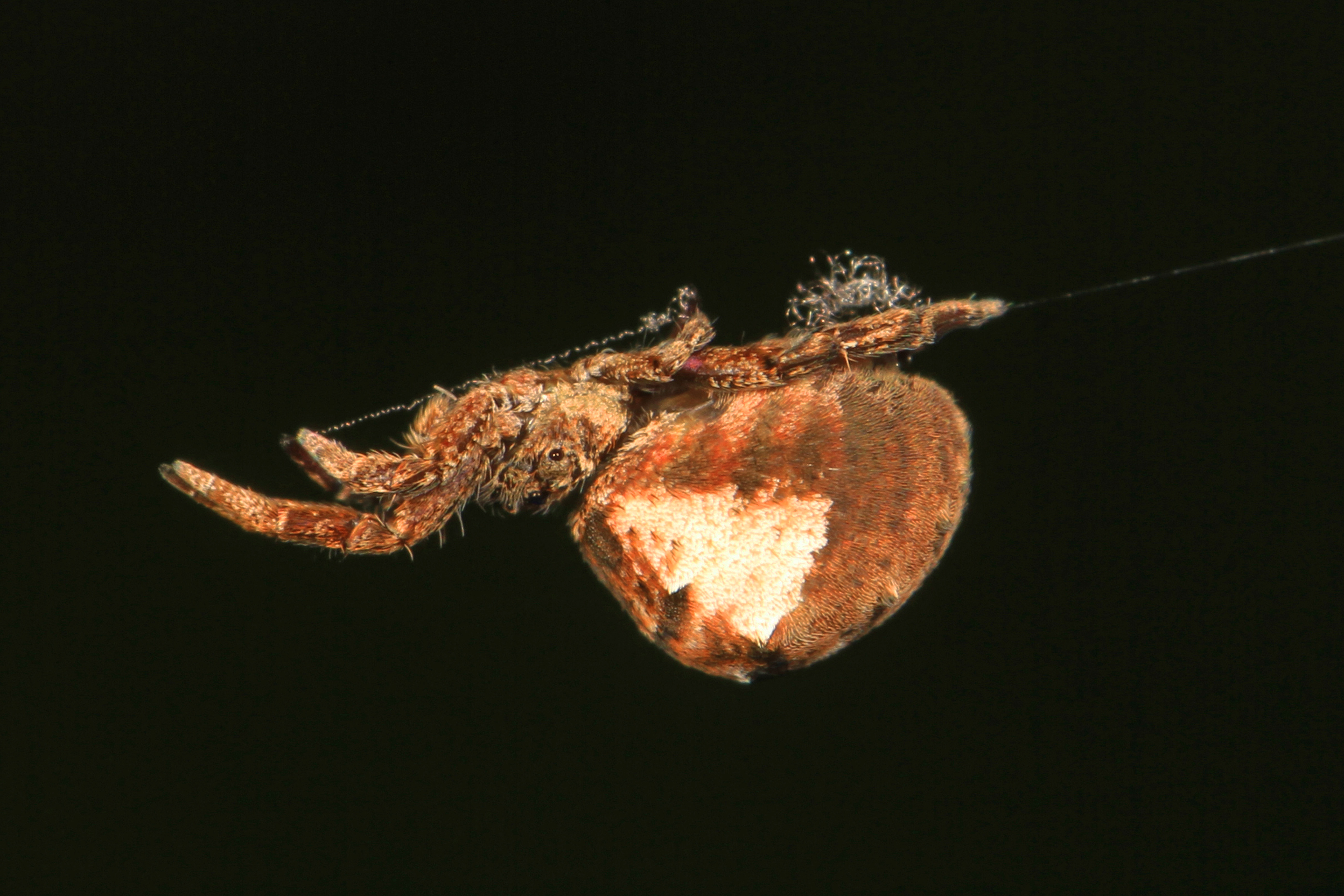 Triangle-web Spider - Hyptiotes cavatus, Julie Metz Wetlands, Woodbridge, Virginia. These are interesting spiders. According to "Common Spiders of North America", the family to which this spider belongs (Uloboridae) are unusual because they don't have venom glands and therefore don't use poison to subdue their prey. Instead, they wrap the prey in a lot of silk, and don't bite until they are ready to eat. This spider is hunting - it is holding its web taut with its front legs. There is a loop of slack line above the spider's back legs. When prey strikes the web, the spider will release the web so that it collapses, snaring the prey.